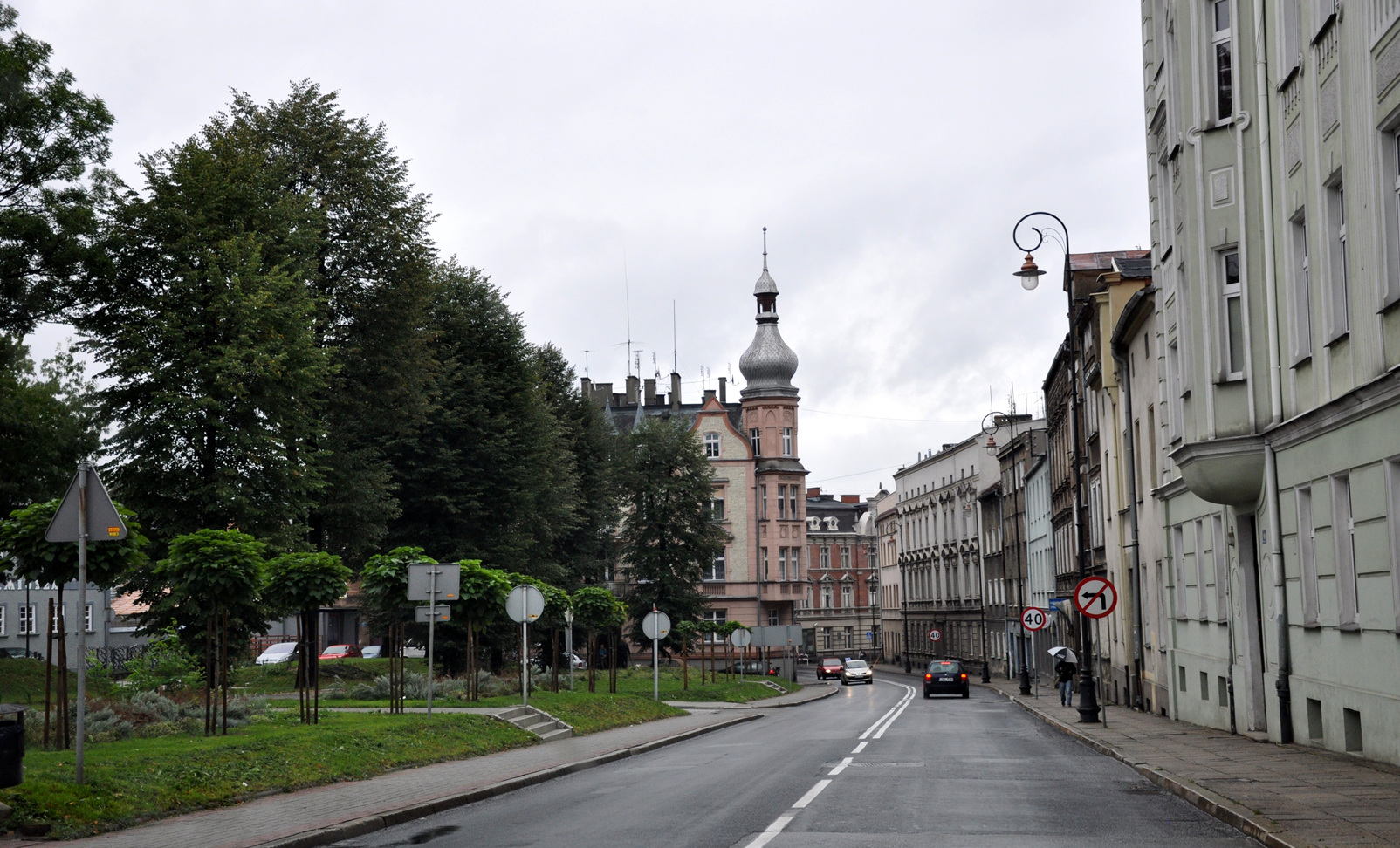 Armii Krajowej street in Prudnik.